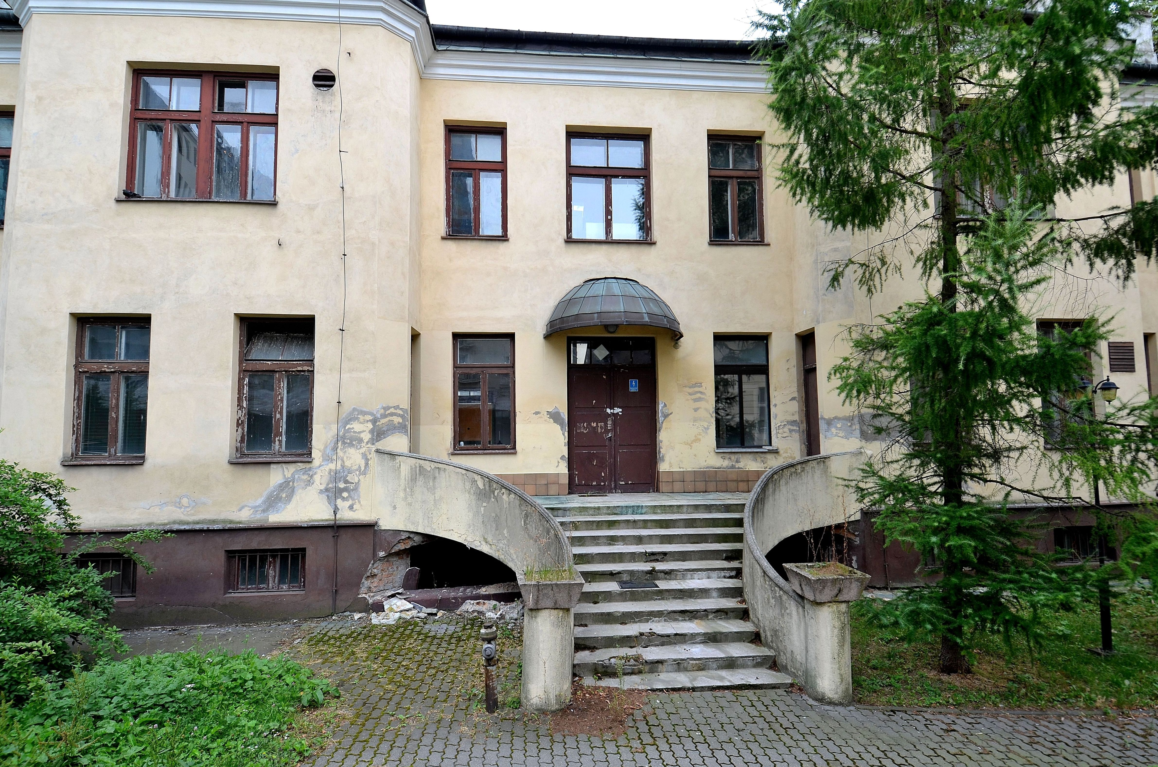 Southern pavillion of the former Bersohns and Baumans Children's Hospital in Warsaw (Śliska Street side)